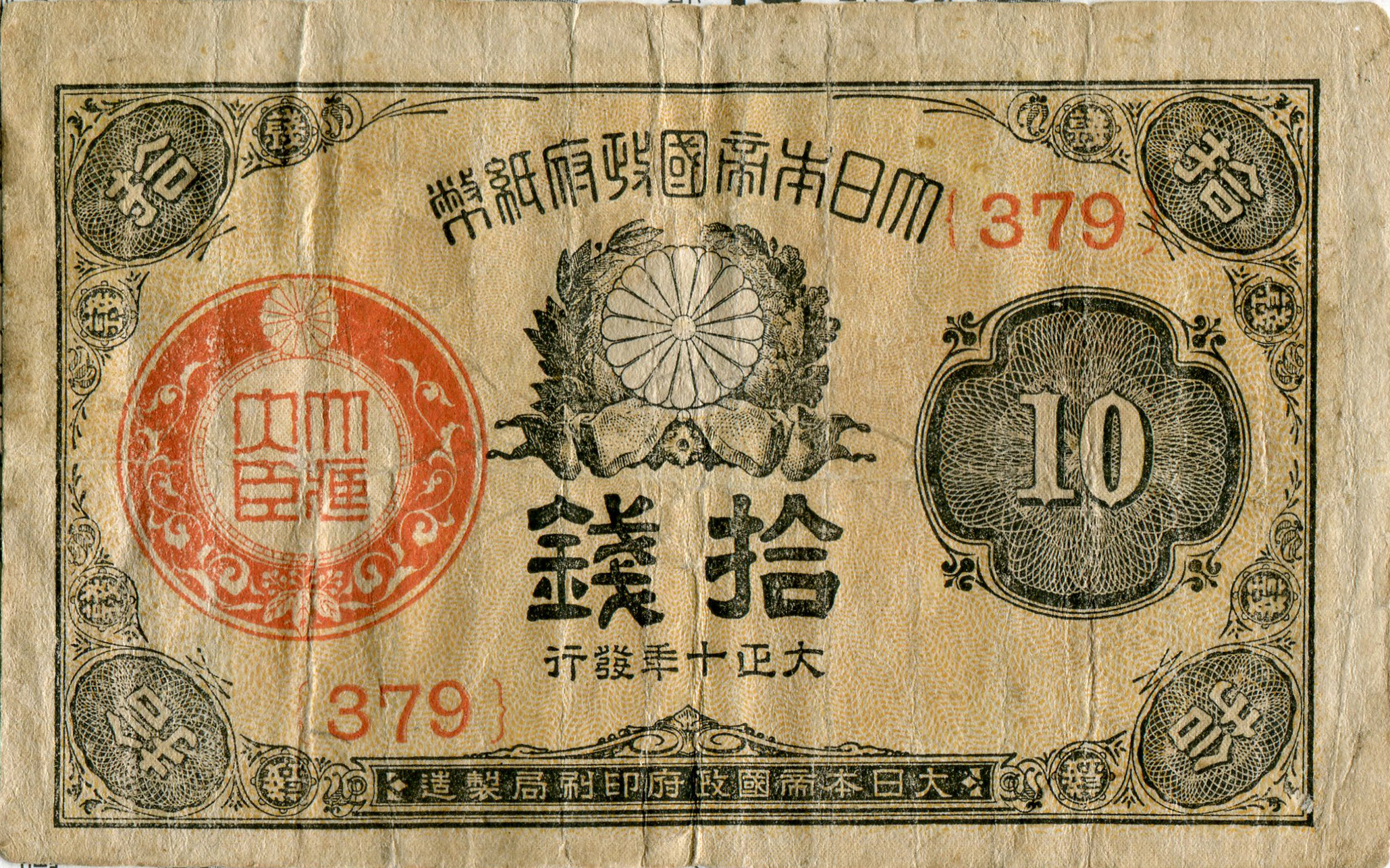 Japanese government small-face-value paper money, "Taishō" 10 Sen (1/10 Yen). First issued in 1917. Demonetized in 1948. 54mm x 86mm.